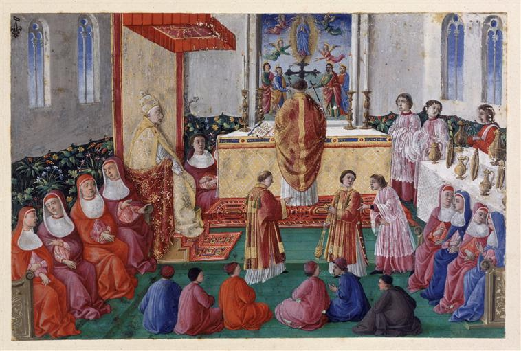 Italian School Ponitifical Mass. Pope Sixtus IV in the Sistine Chapel (15th Century) Illuminated manuscript 0.108 m. x 0.163 m. Musée Condé, Chantilly